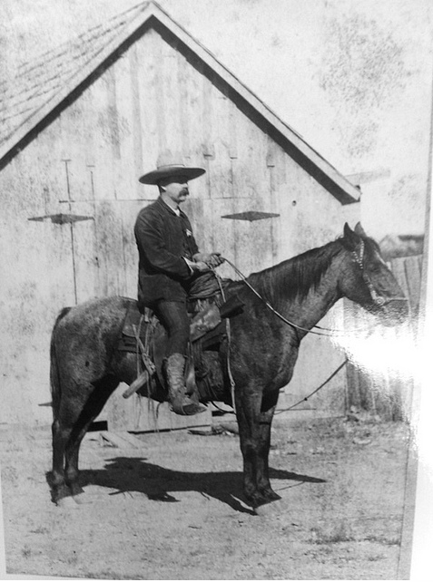 Dr George E. Goodfellow on El Rosillo, a gift from Mexican President Porfirio Diaz